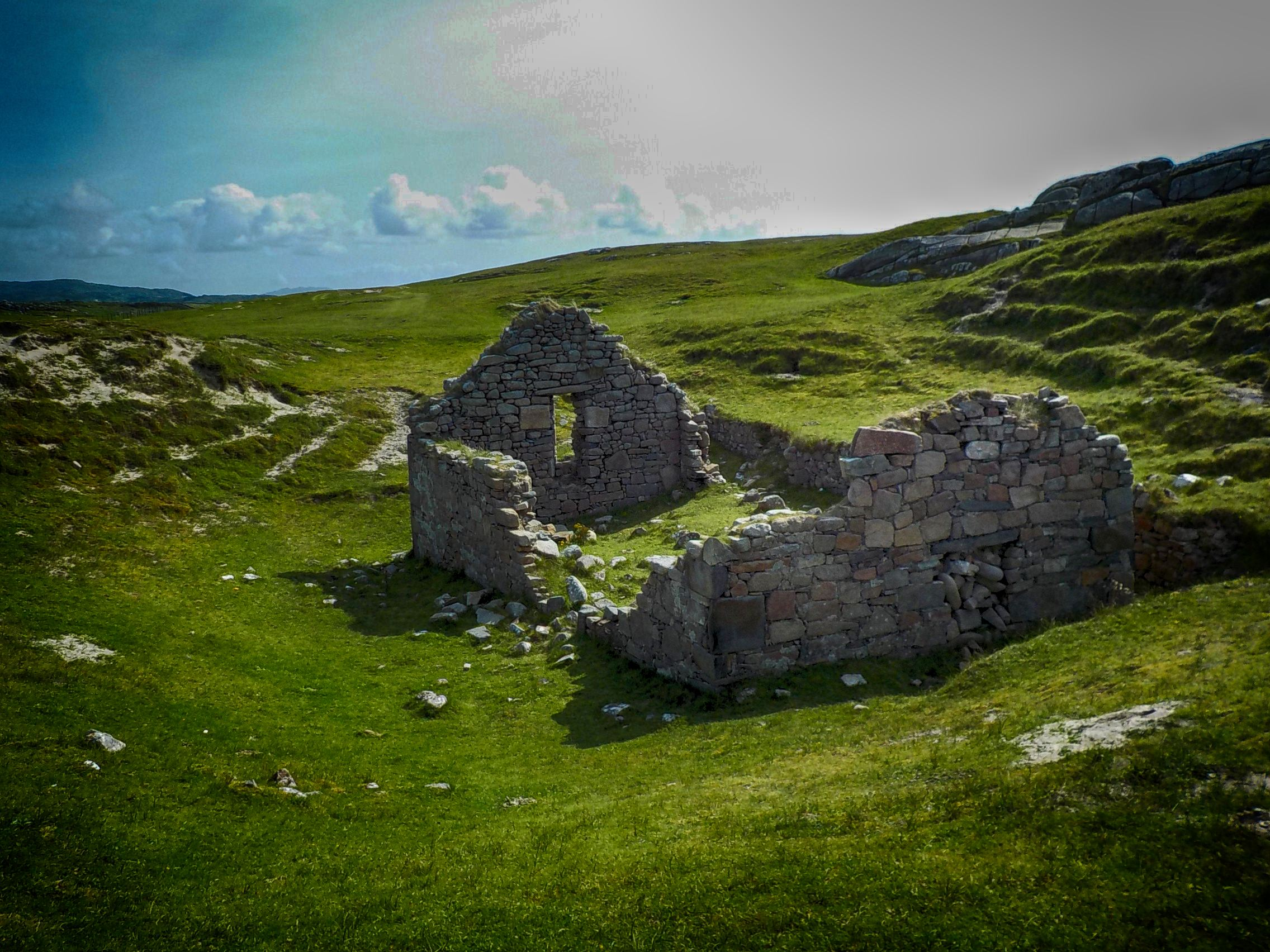 Saint Feichin's church ruins. Omey Island. Connemara. Ireland